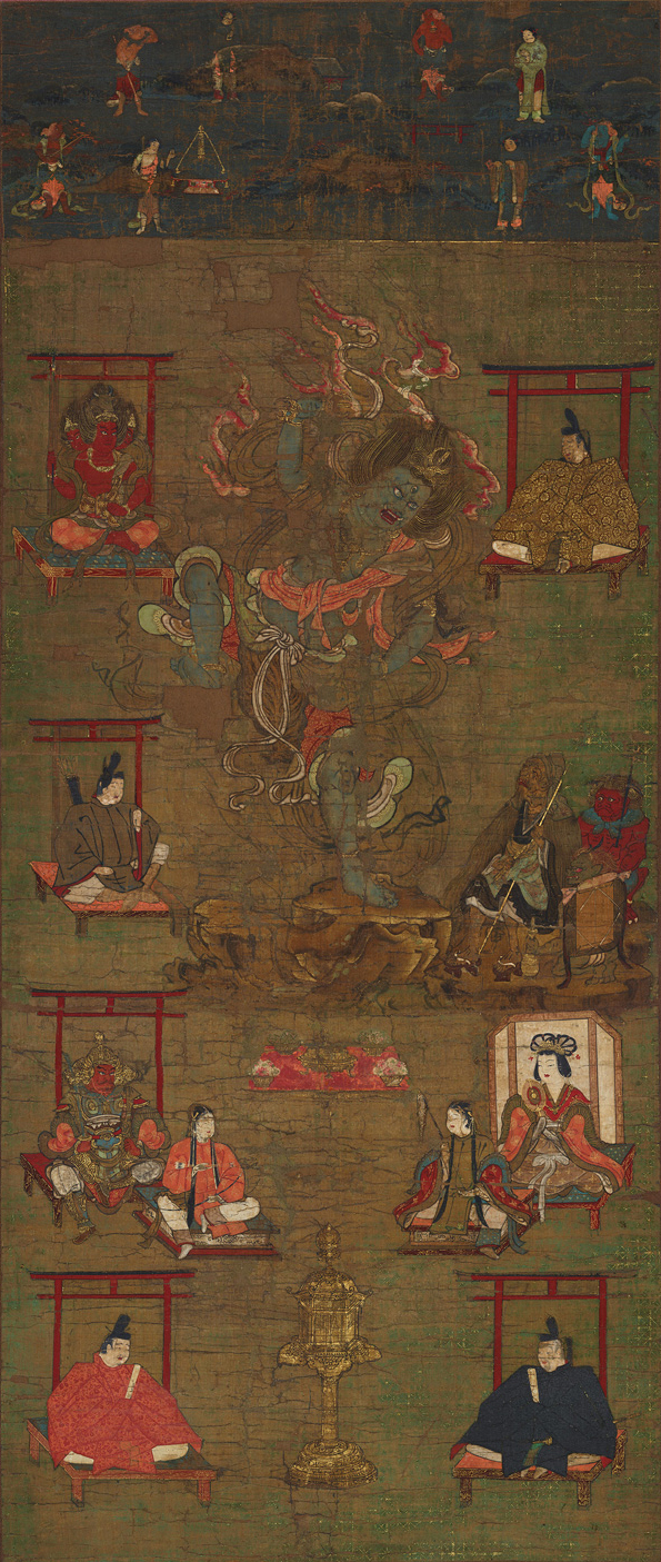 Yoshino Mandala, Saidaiji, Nara, Nara, Japan